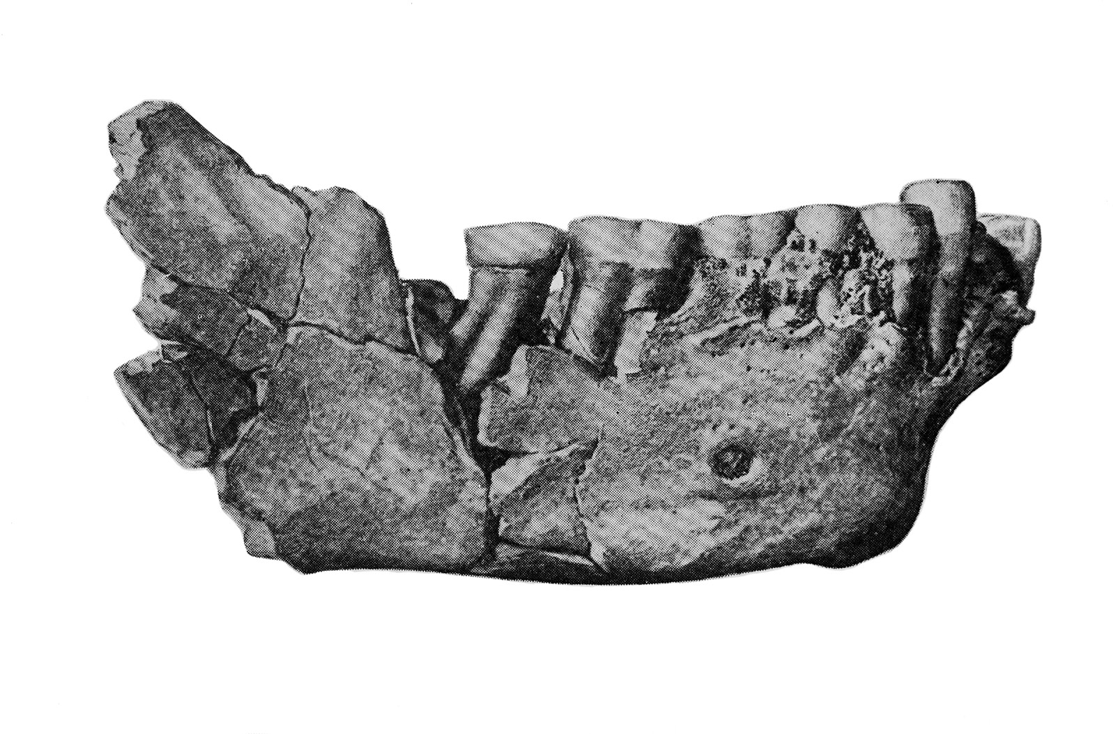 The Ehringsdorf G jaw (7-13 year-old). Wellcome Images Keywords: Prehistory